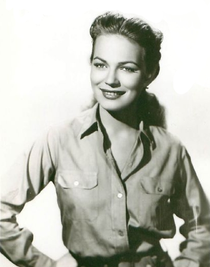 Publicity photo of American actress Kristine Miller from the television series, Stories of the Century Other information Entire television series is in the public domain